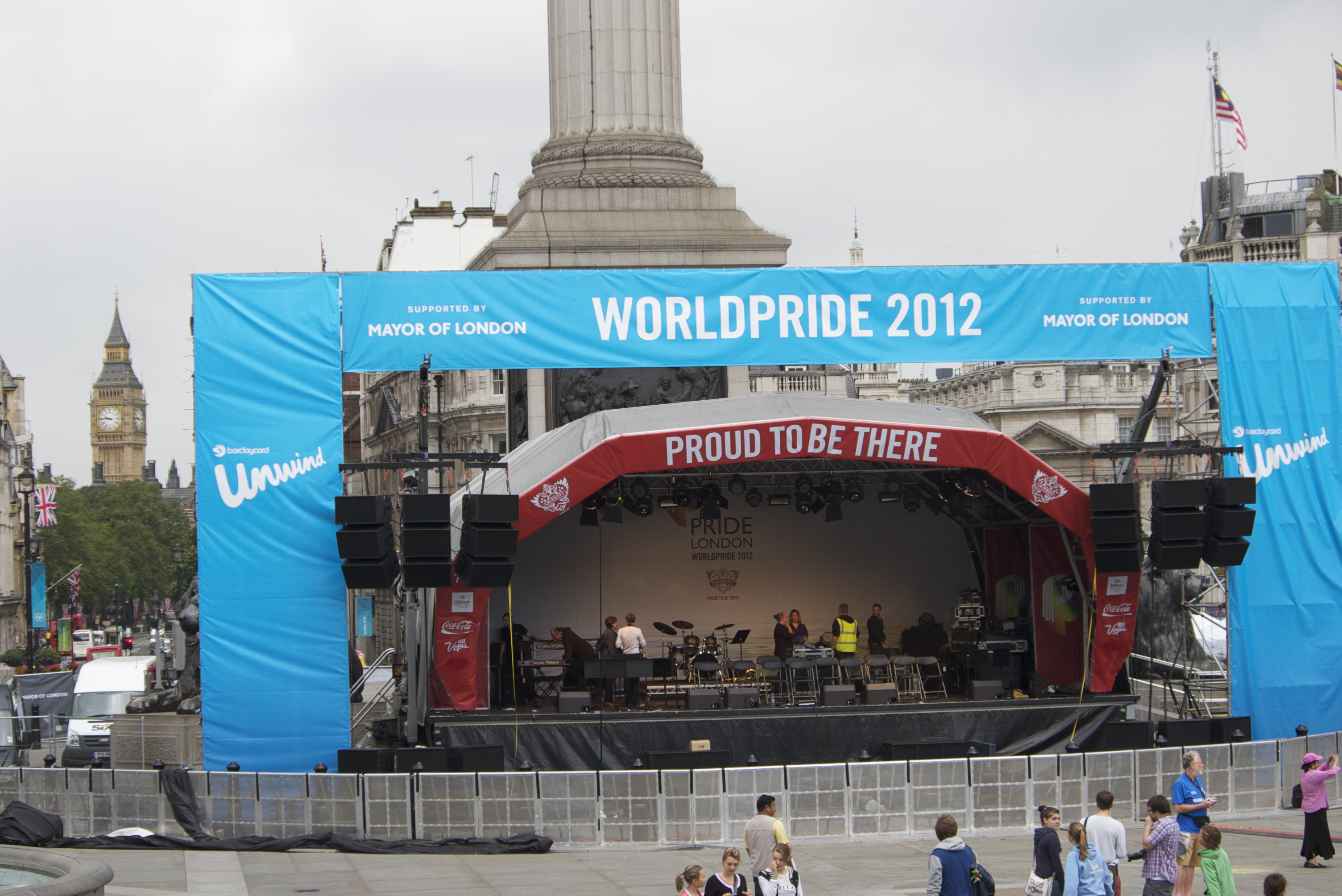 Revellers at Pride London 2012